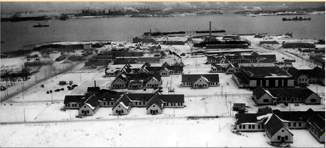 An easterly view of HMCS Protector, Sydney Harbour, and the Dominion Steel and Coal Company's Sydney Steel Plant in 1943. Merchant vessels can be seen in the harbour before departure on an Atlantic convoy. This photograph was taken in World War II, and was published in magazines and newspapers of that era, meaning that the photo is in the public domain in Canada.